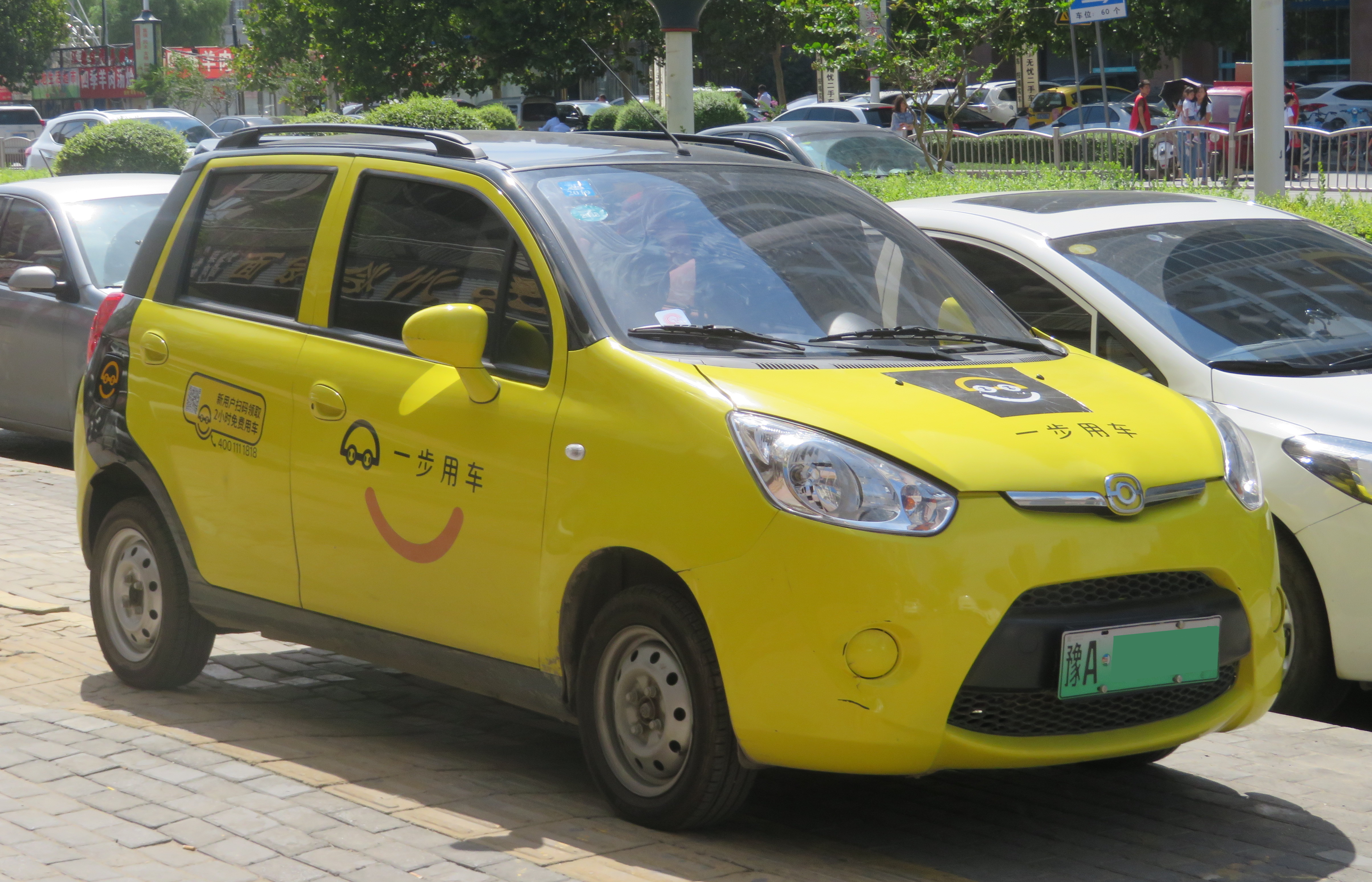 Photographed in Zhengzhou, Henan province, China